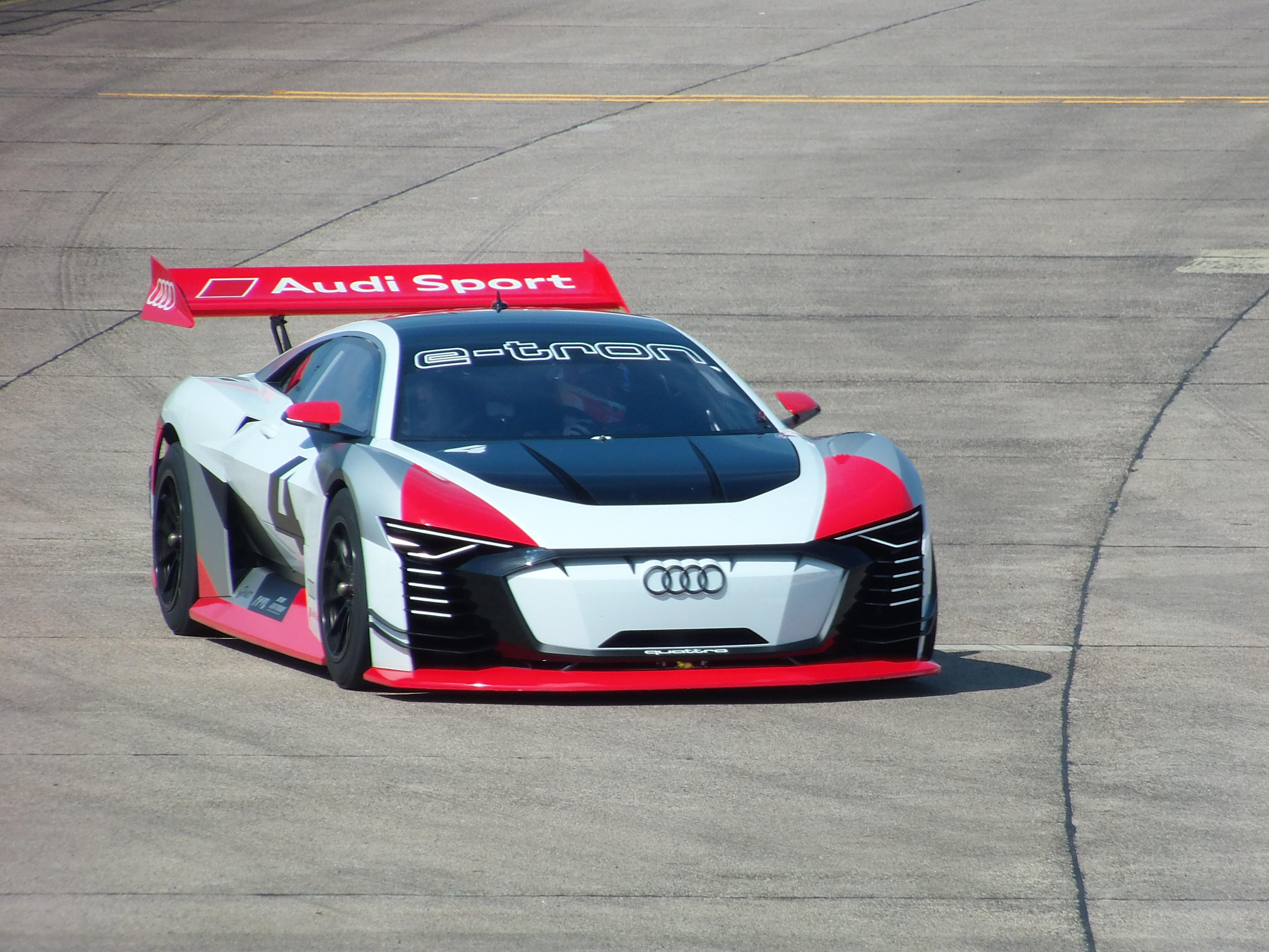 Audi e-tron Vision Gran Turismo doing demonstration laps at 2018 Berlin E-Prix